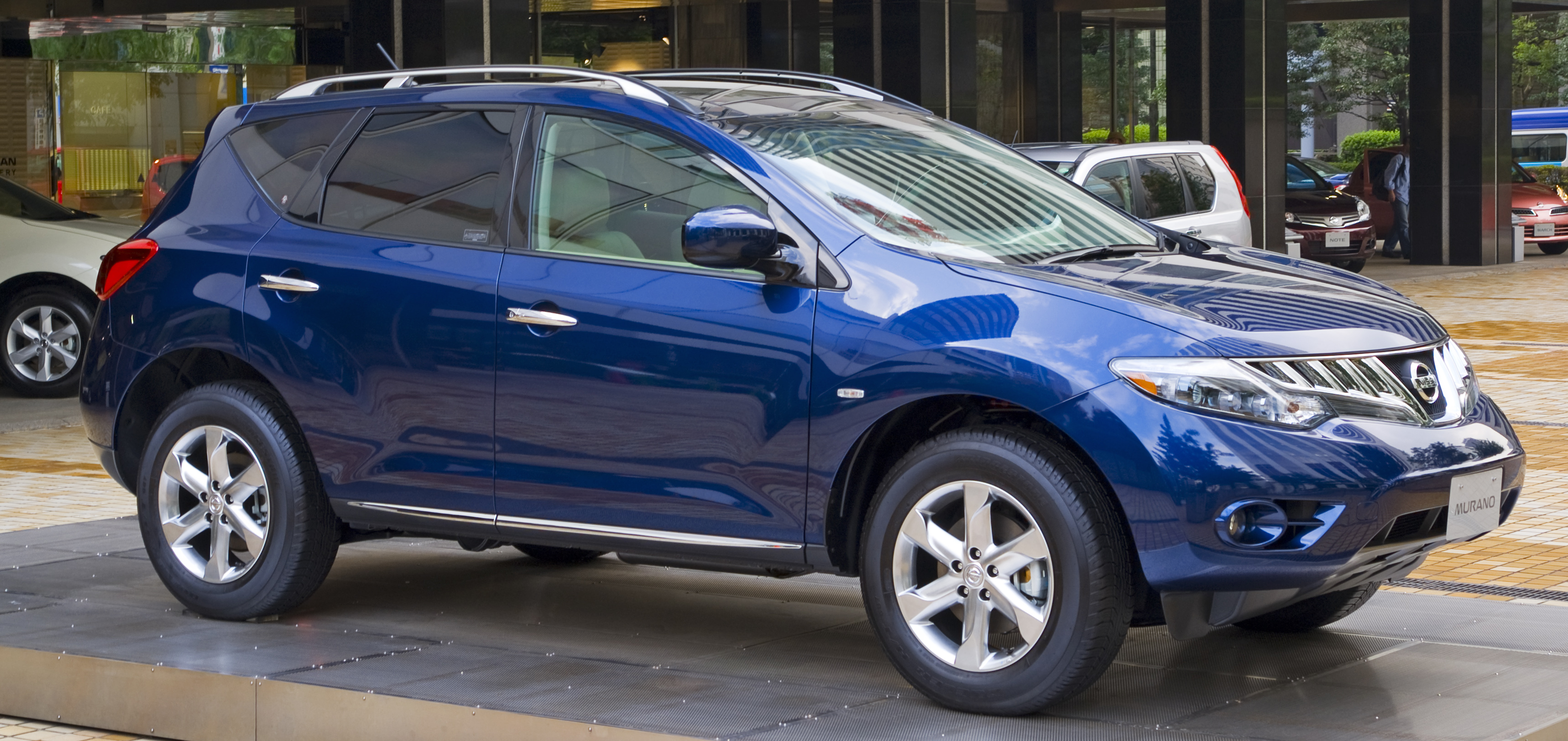 2008 2nd generation Nissan Murano photographed in Nissan Gallery (Chuo, Tokyo)